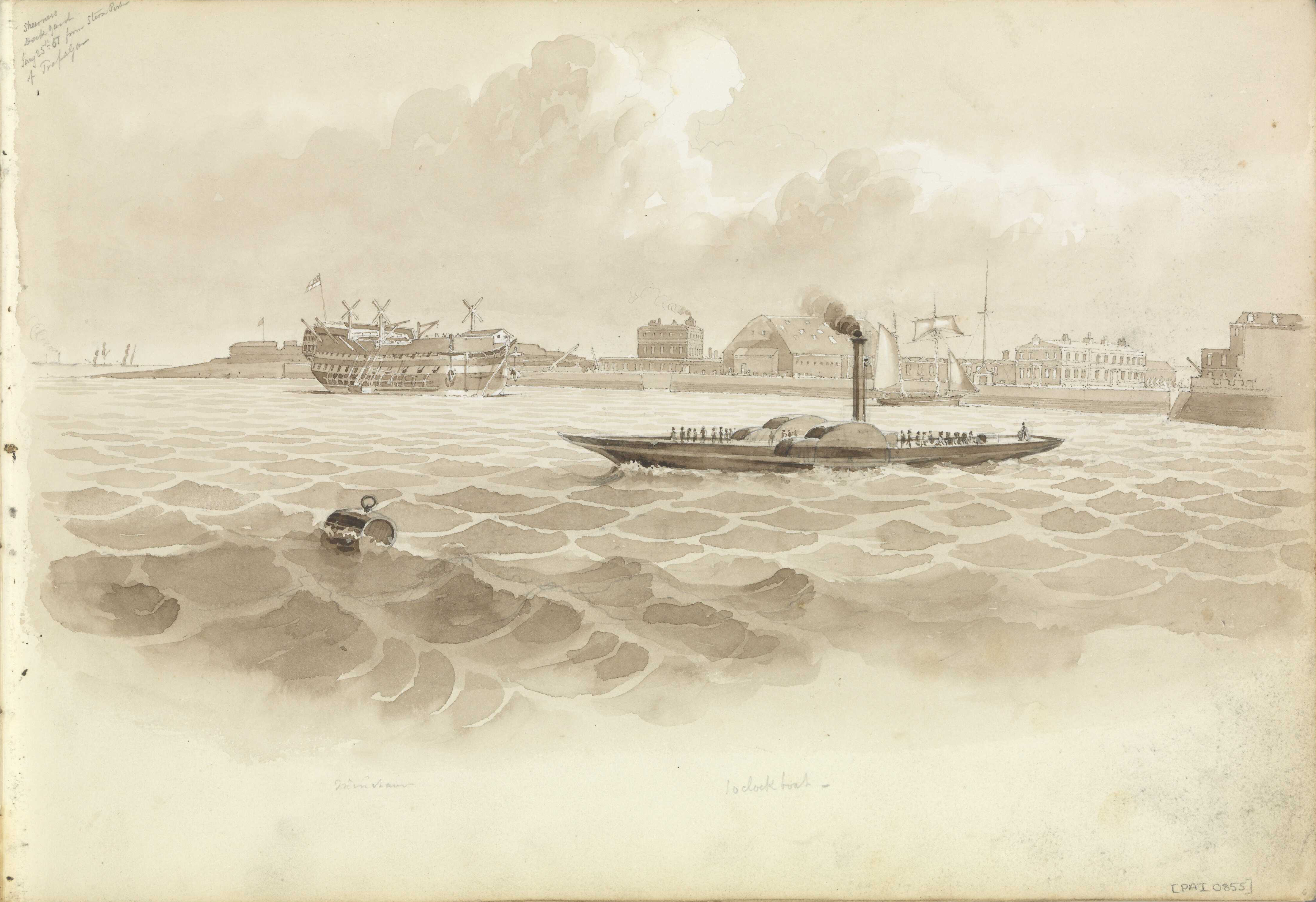 (Recto) Inscribed top left: 'Sheerness / Dock Yard / Jany 25th 51/ seen from stern port of Trafalgar'. Identified at the bottom are the receiving ship 'Minotaur' on moorings in front of Blockhouse Point and the '1 o'clock boat' (steamer) in the foreground. This appears to be a naval picket boat carrying officers out from the Dockyard to ships in the anchorage. The Commissioner's House can be see to the right of the fort, with a ship shed and other buildings round one of the basin entrances, and a small schooner close in off the wharf. On the far left other shipping can be seen passing in the Thames. 'Minotaur' was a 74-gun 3rd rate, launched at Chatham in 1816. She was used on harbour service from 1842 and (as 'Hermes' from 1866) broken up at Sheerness in 1869. Sheerness Dockyard from stern port of the 'Trafalgar', 25 January 1851